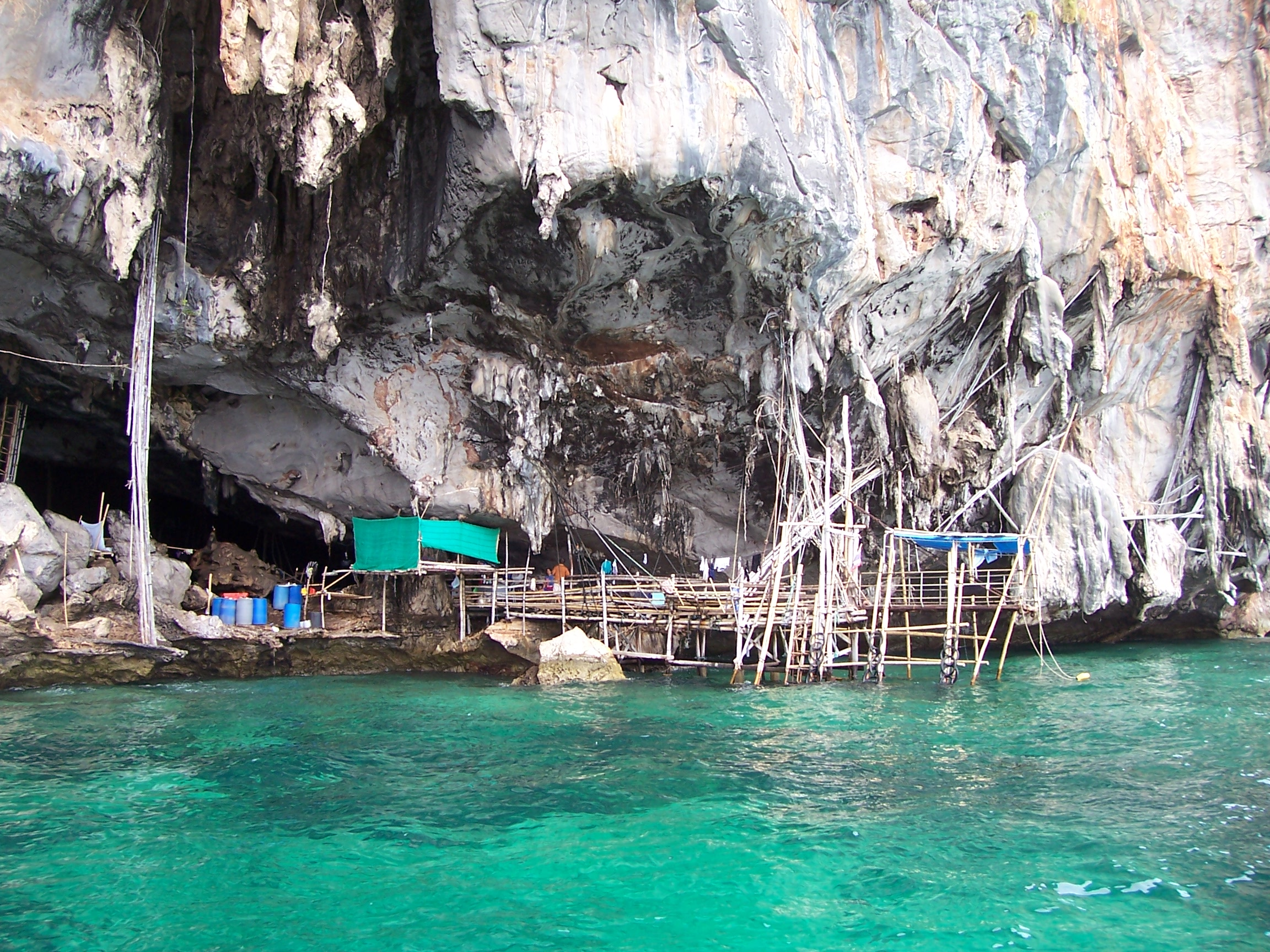 These caves contain swallows nests. The scaffolding is there for people to harvest the nests, which are a chinese delicacy and coincidentally very expensive. The nests are made from the swallows' saliva (yum!) and I believe when cooked have a texture a bit like mung-bean noodles.